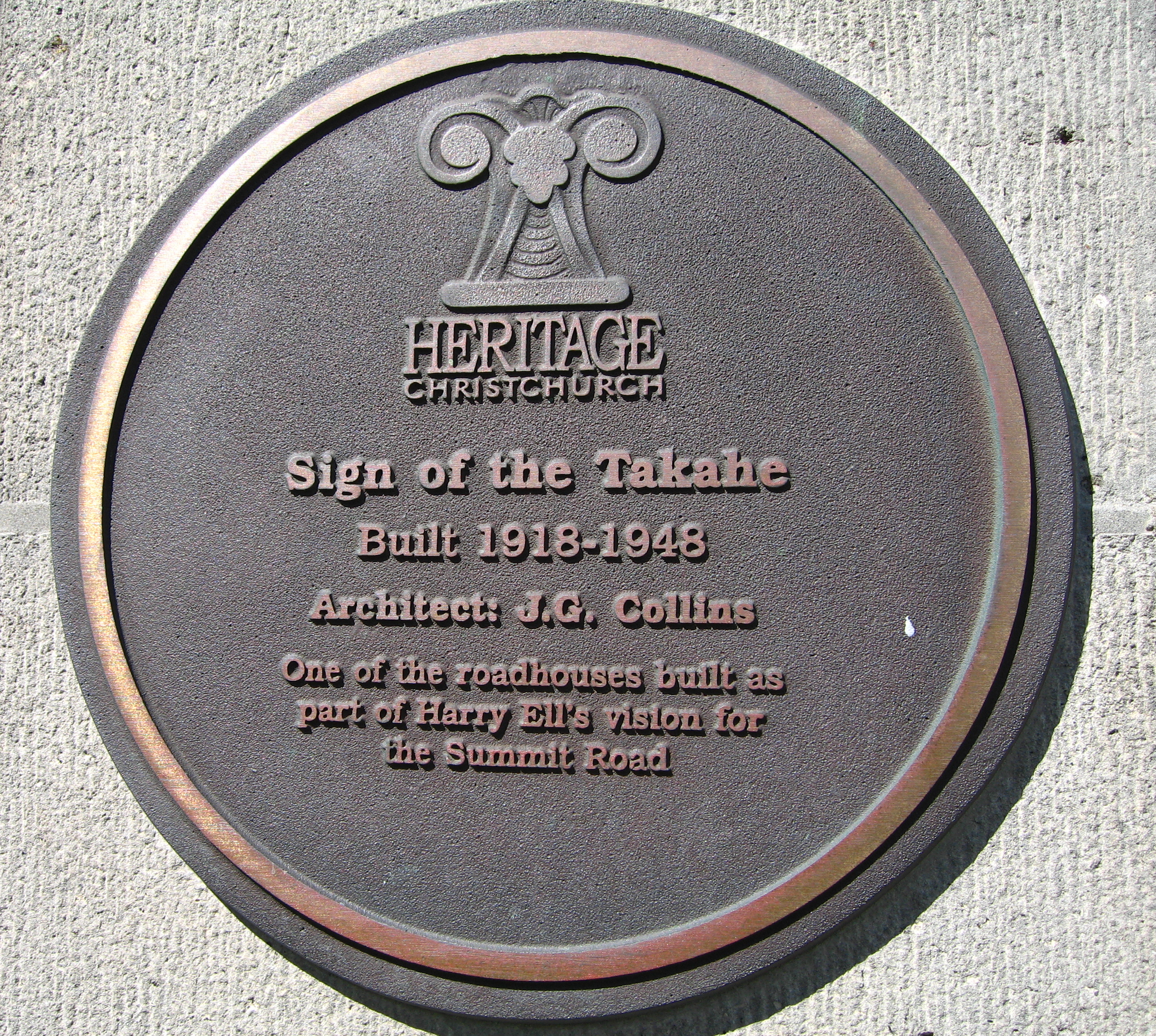 Plaque commemorating Henry Ell at the Sign of the Takahe, Christchurch, New Zealand.